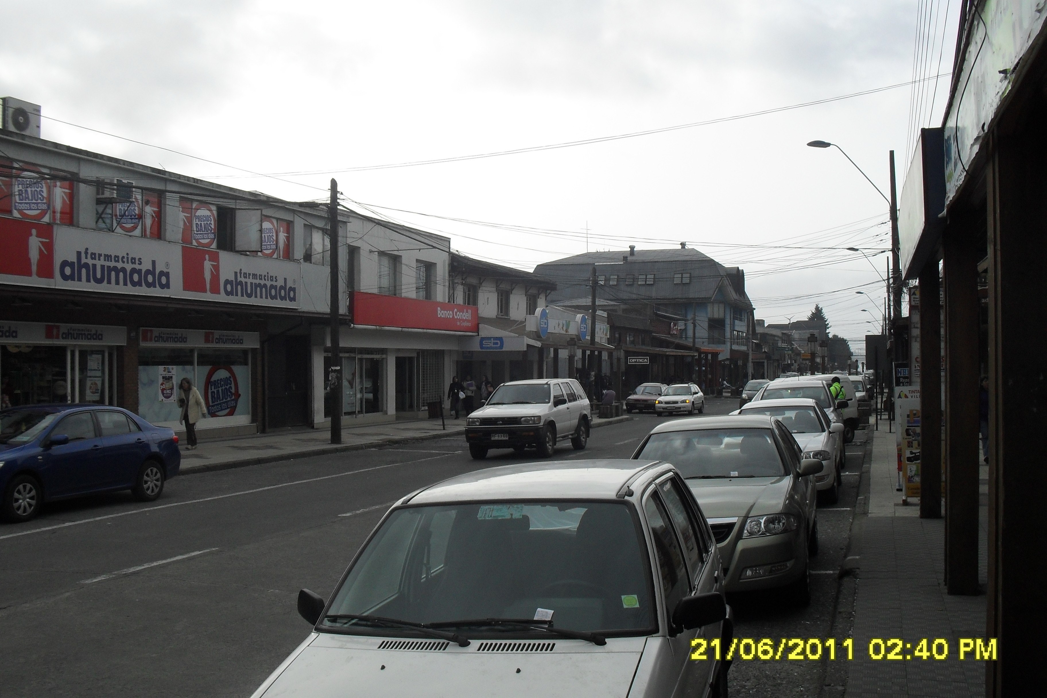 Edificios de Villarrica